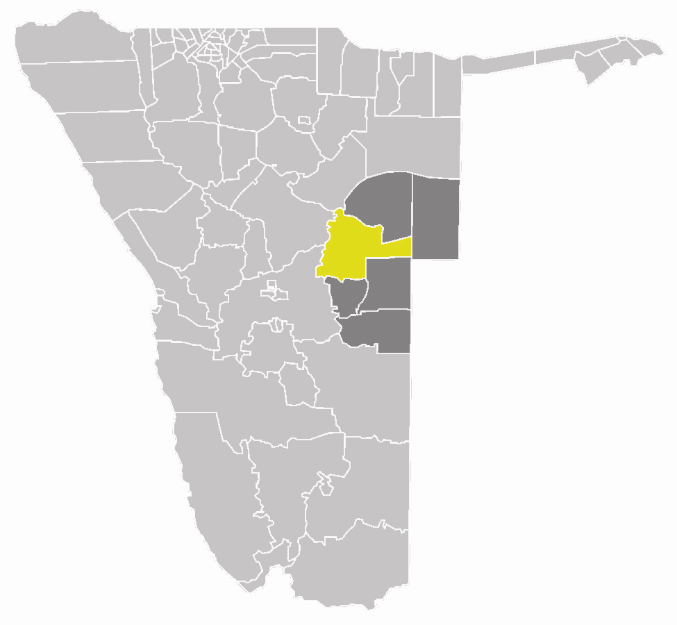 map of the Steinhausen constituency within the Omaheke region, Namibia